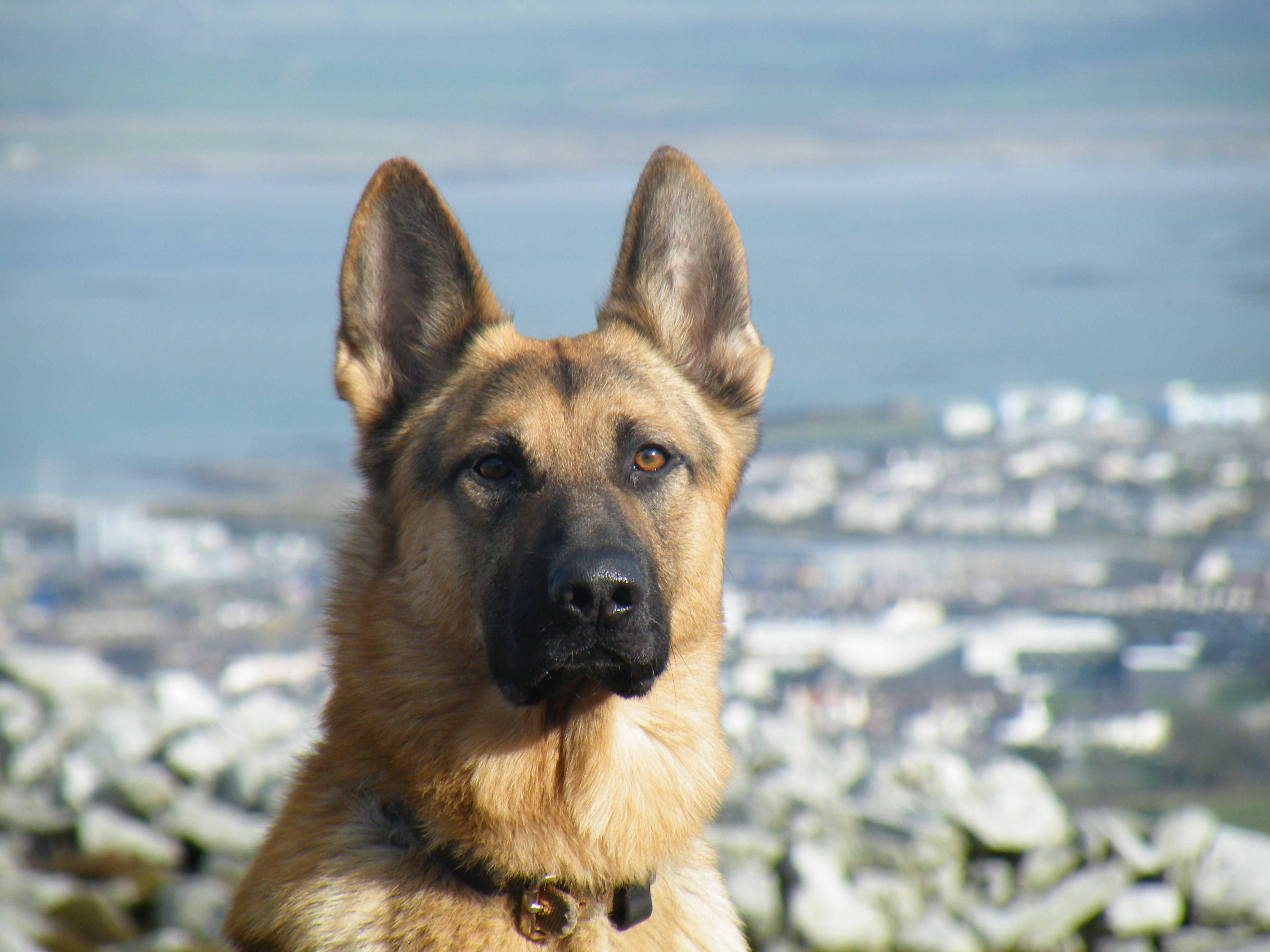 It's Gimms.